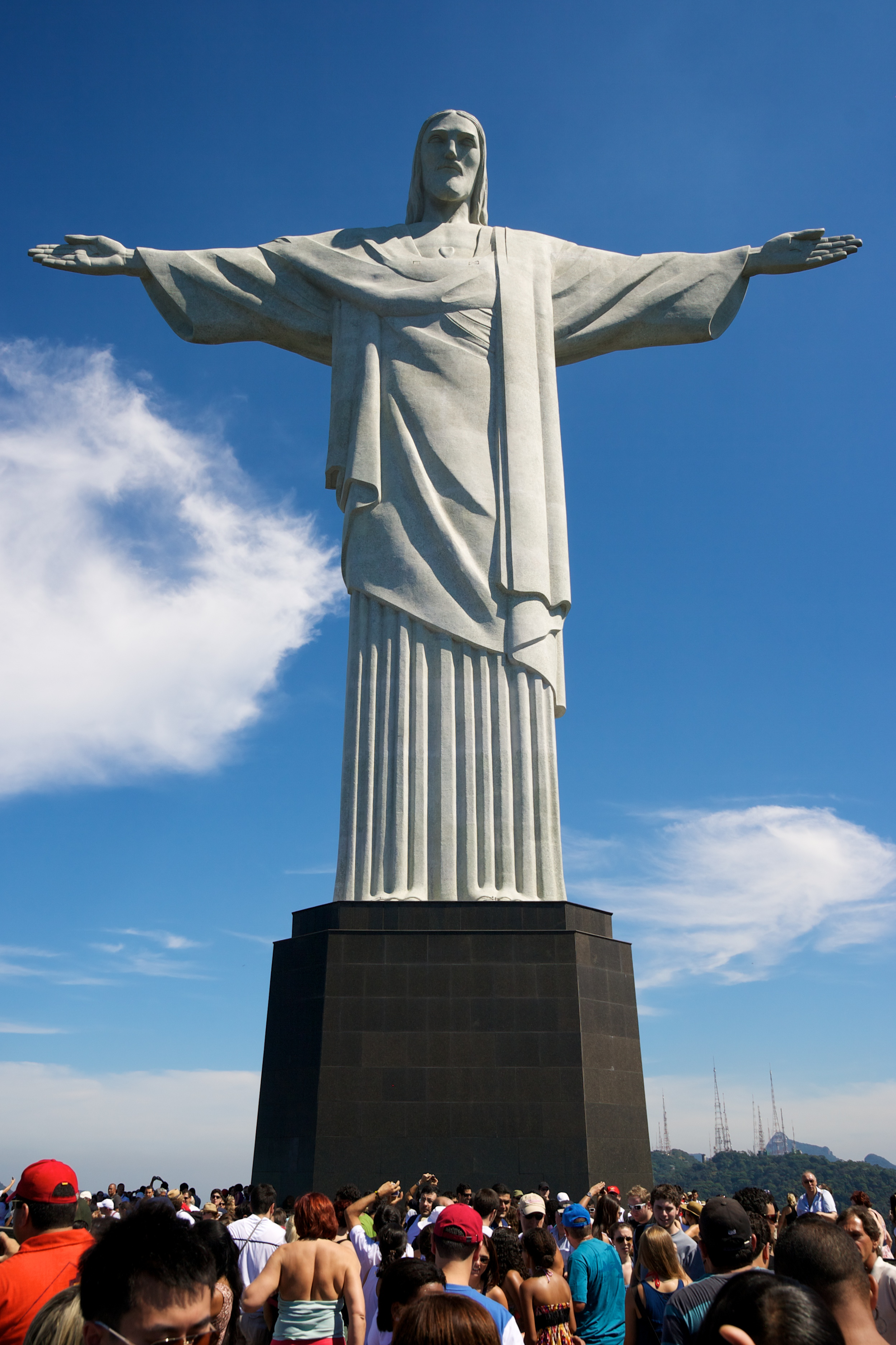 The statue of Cristo Redentor atop Corcovado - Rio de Janeiro, Brazil